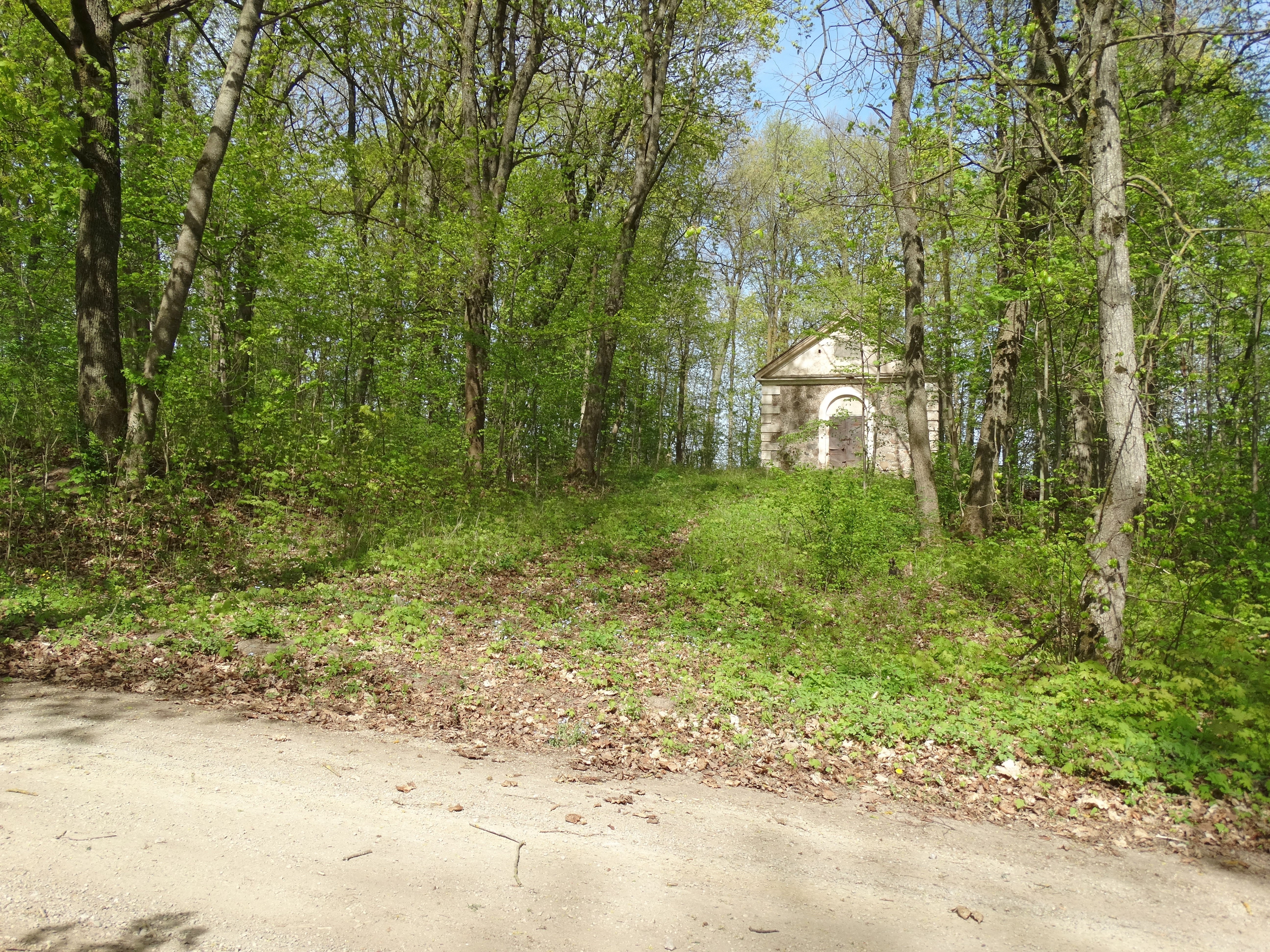 Former manor chapel, Dovydiškis, Pakruojis District, Lithuania